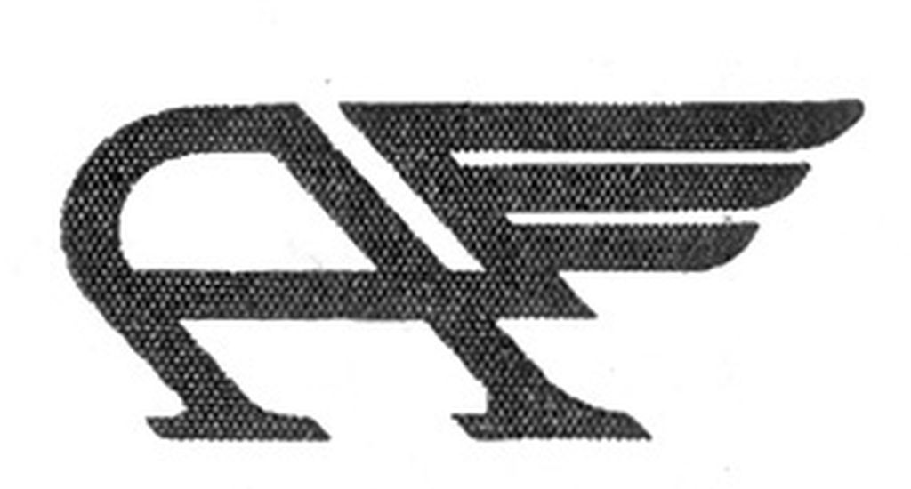 Austin Motors logo